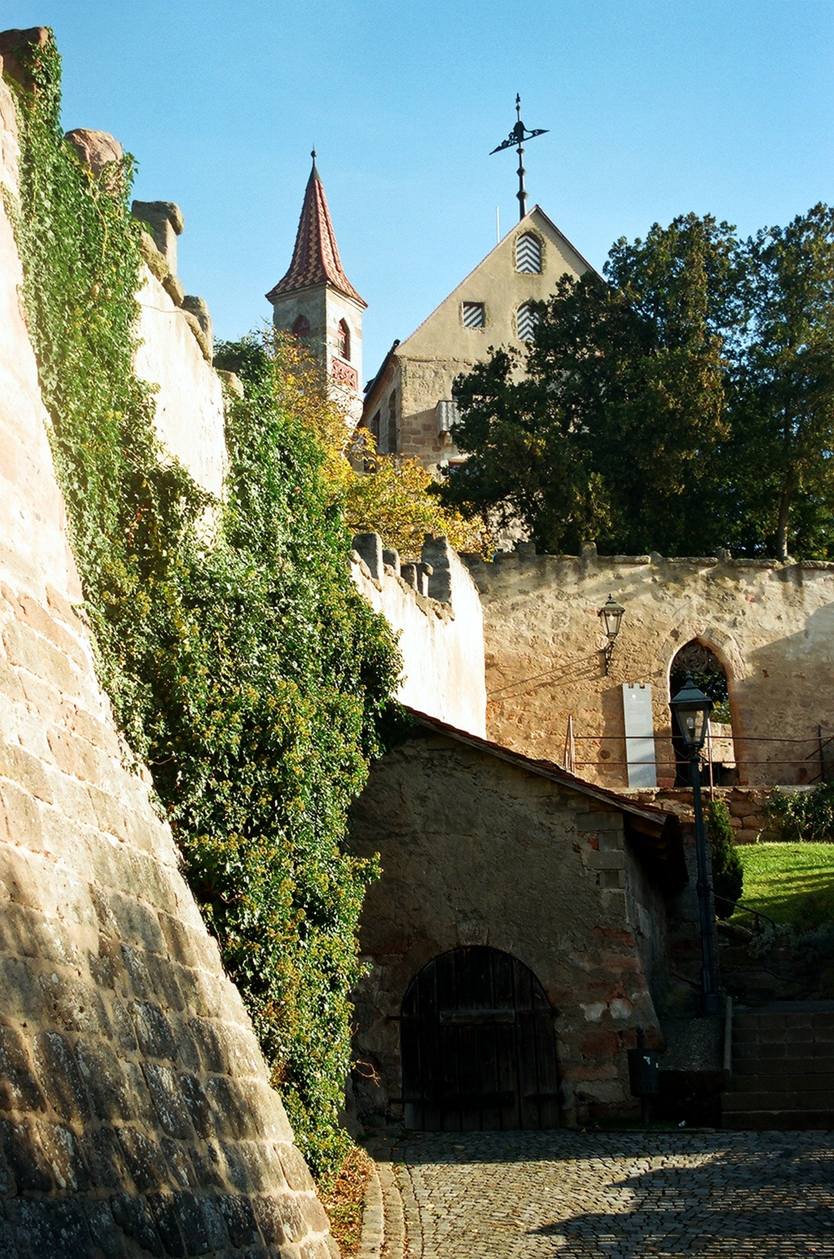 Abenberg, the Burgsteig